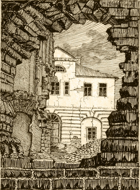 Ruins of Miensk Castle and Old Court, Jazep Drazdovič